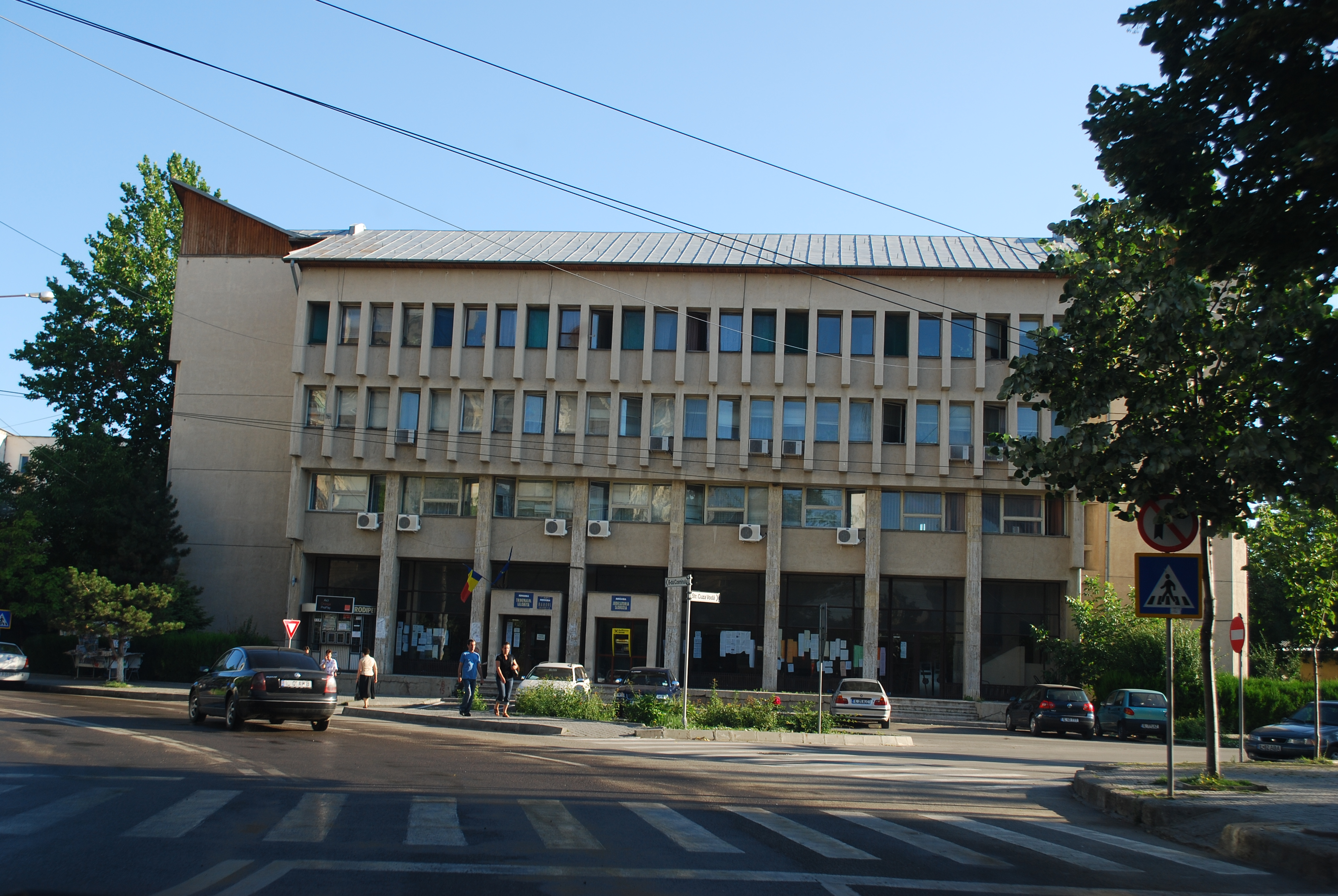 Slobozia, Romania courthouse